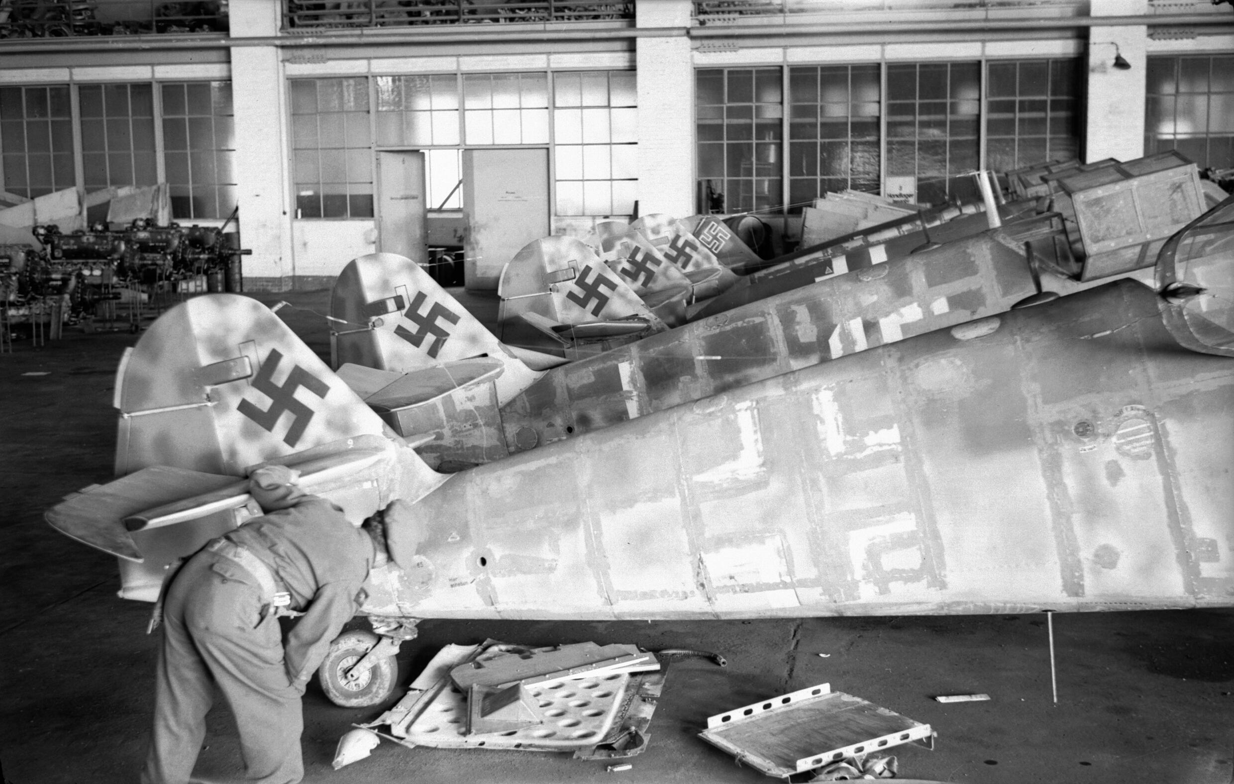 The Luftwaffe 1939 - 1945 A British soldier examines a row of partially complete Messerschmitt Me 109G fuselages in a hangar at Wunstorf airfield, captured by the 5th Parachute Brigade, 6th Airborne Division, 8 April 1945. The aircraft have been disassembled and their paintwork stripped as part of a refurbishment that was never completed.